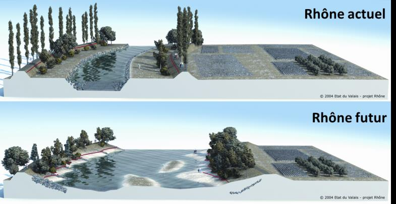 Aménagement actuel et projet de réaménagement futur